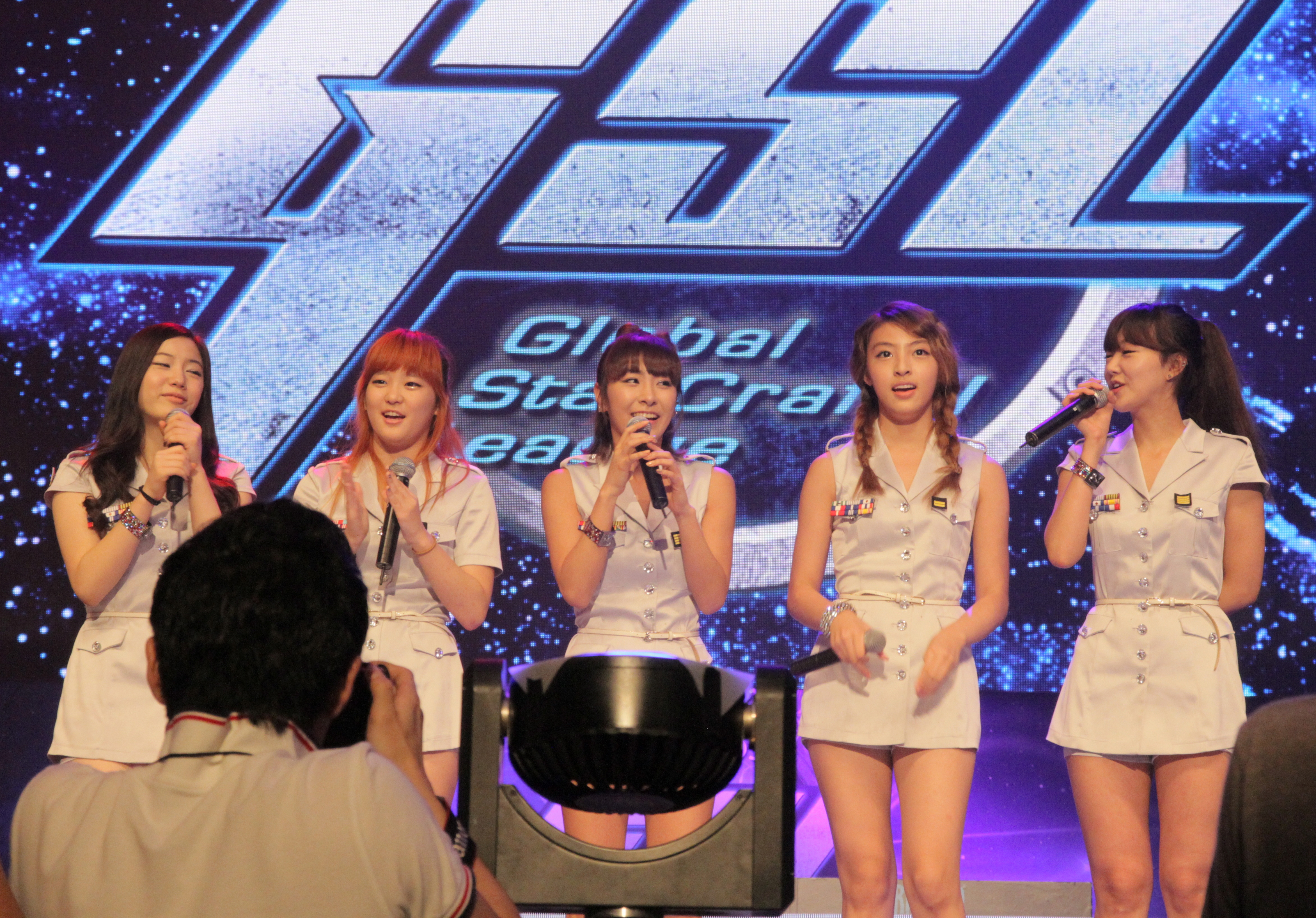 The K-Pop group "5 Dolls" performed two of their songs before the start of the StarCraft matches. The StarCraft GSL July Finals were held at Yonsei University. Left to right: Hyo-young, Eun-kyo, Chan-mi, Hye-won, and Soo-mi.